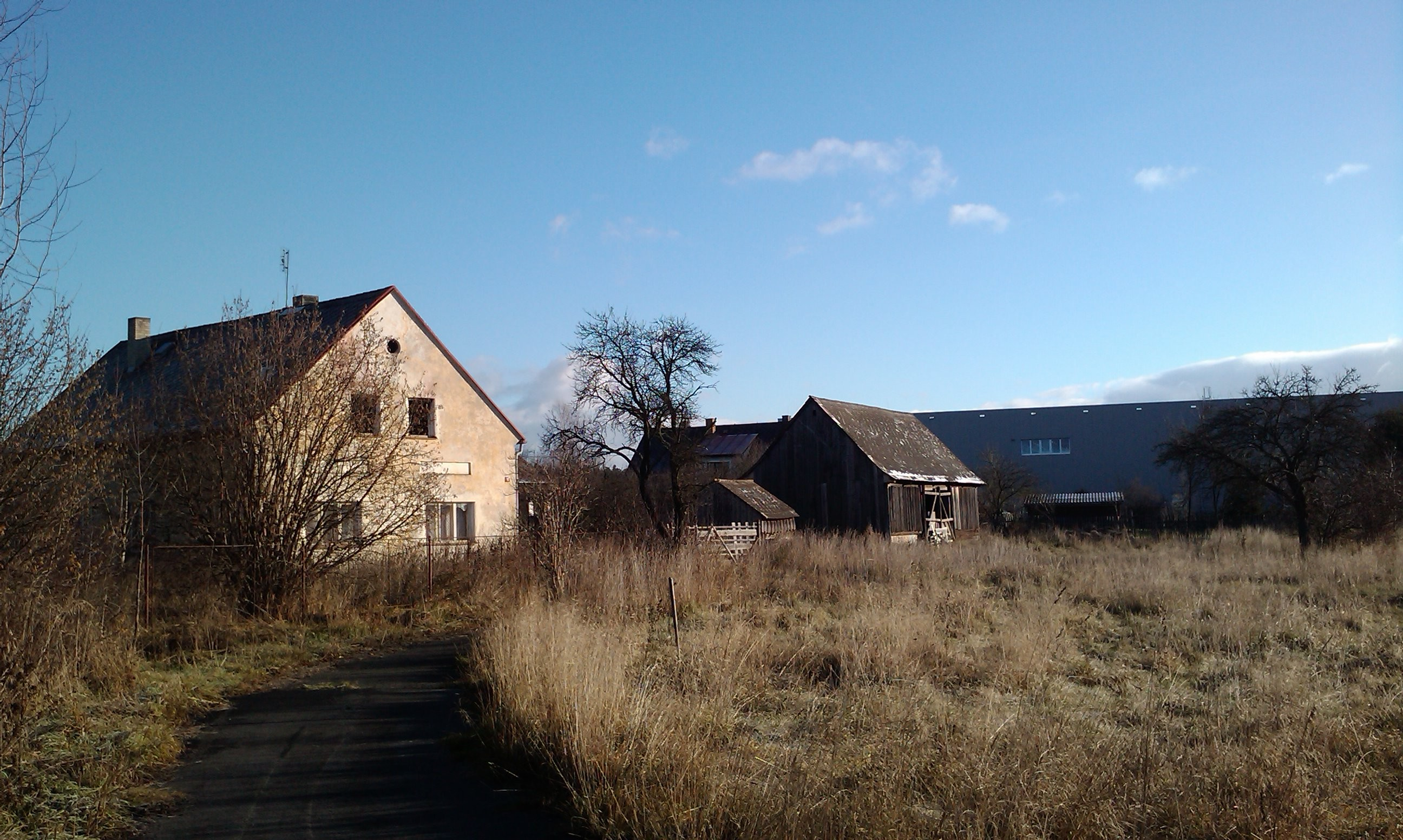 Nová Hospoda u Boru, old houses in contrast with a industrial complex.